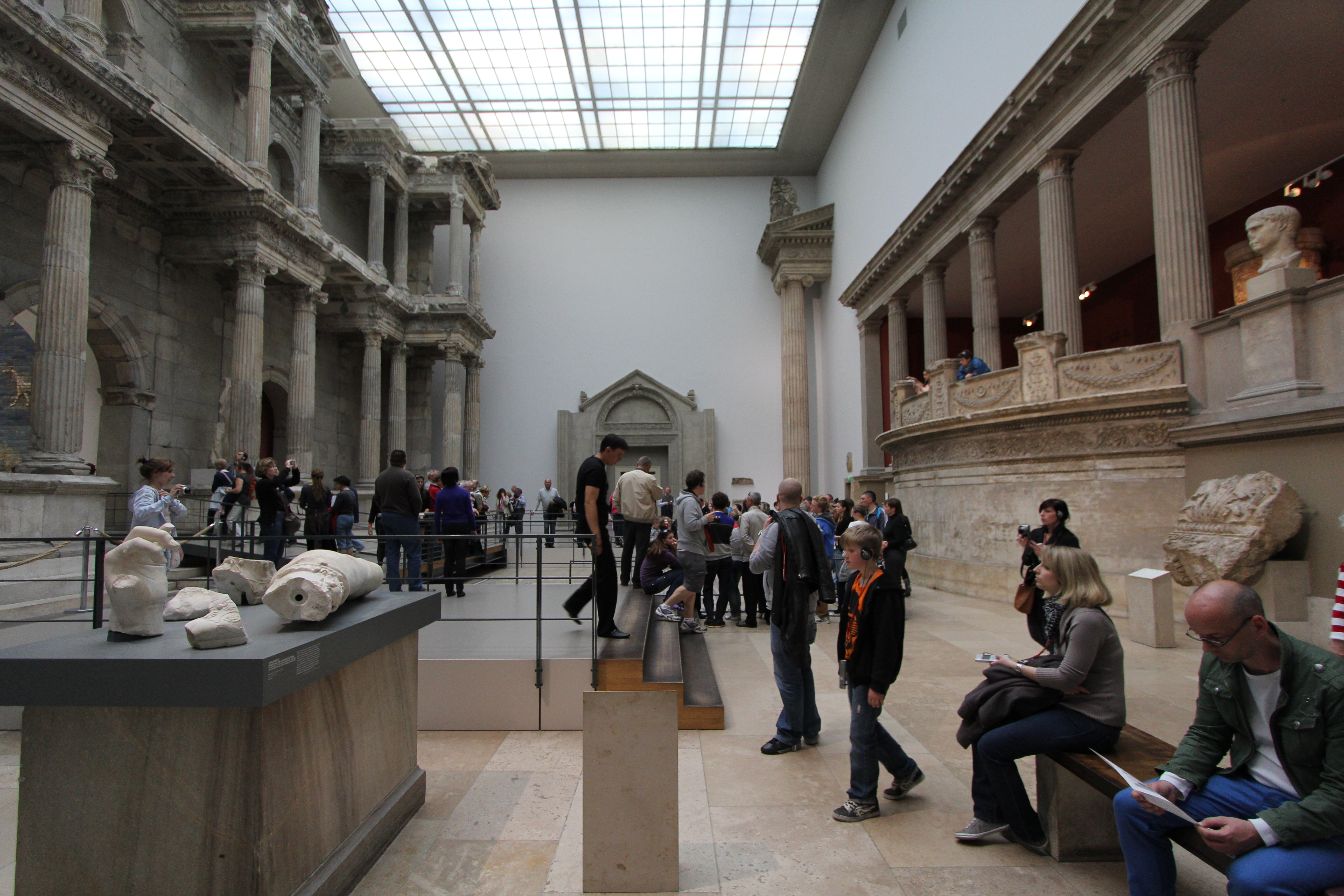 In the Pergamon Museum in Berlin; on the left is the Market Gate of Miletus, on the right is a collection of Roman architecture from Western Anatolia.